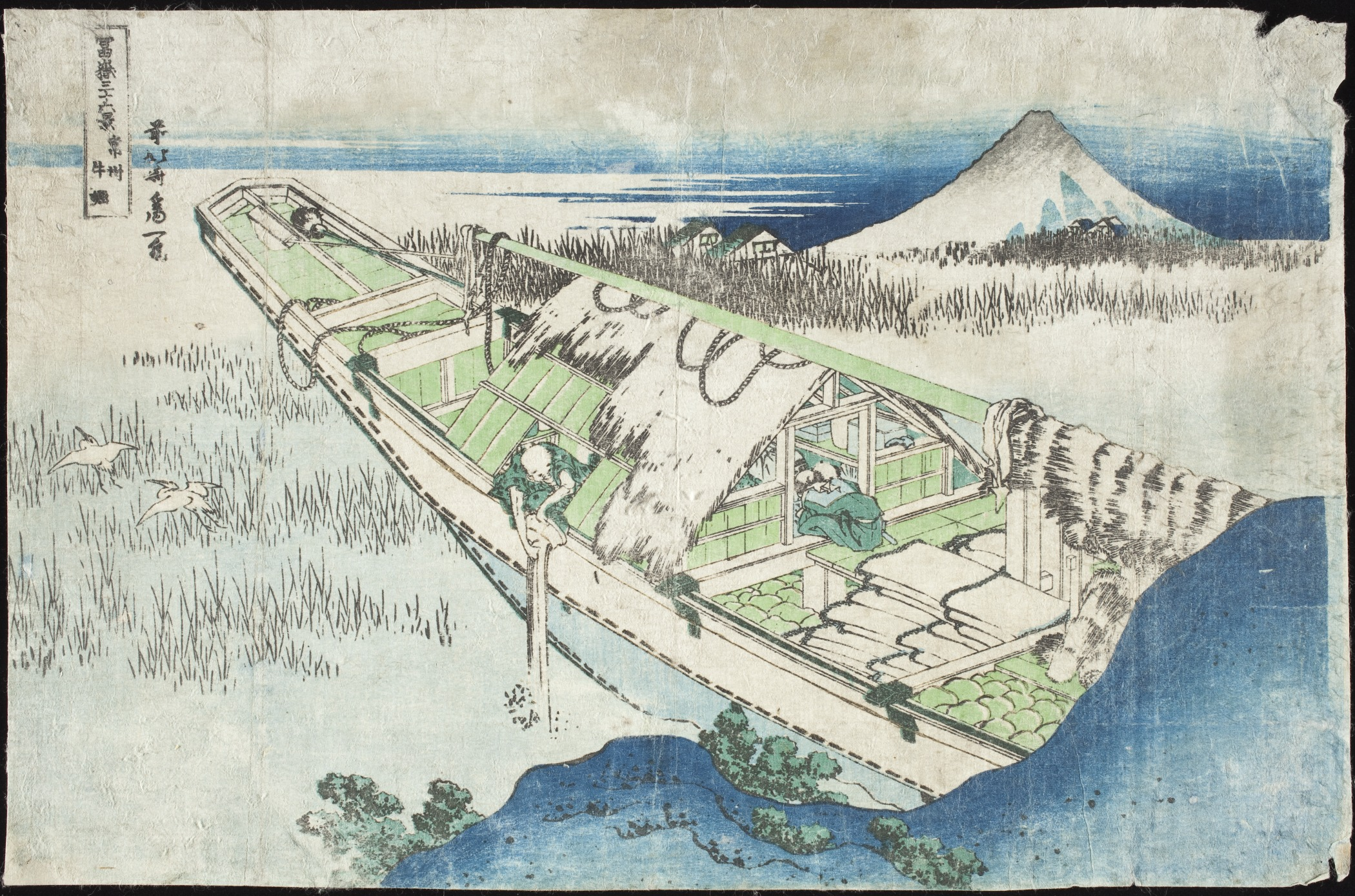 Japan, 19th century Series: Thirty-six Views of Fuji Prints; woodcuts Color woodblock print, later edition REPRODUCTION Image: 9 5/8 x 14 3/4 in. (24.5 x 37.5 cm); Paper: 9 5/8 x 14 3/4 in. (24.5 x 37.5 cm) Gift of Judson D. Metzgar (46.38.12) Japanese Art